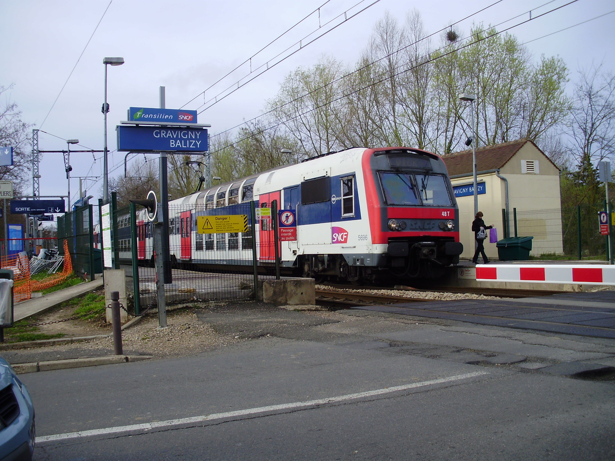 Z 5600 (Z 5696) in Gravigny - Balizy station, Essonne, France